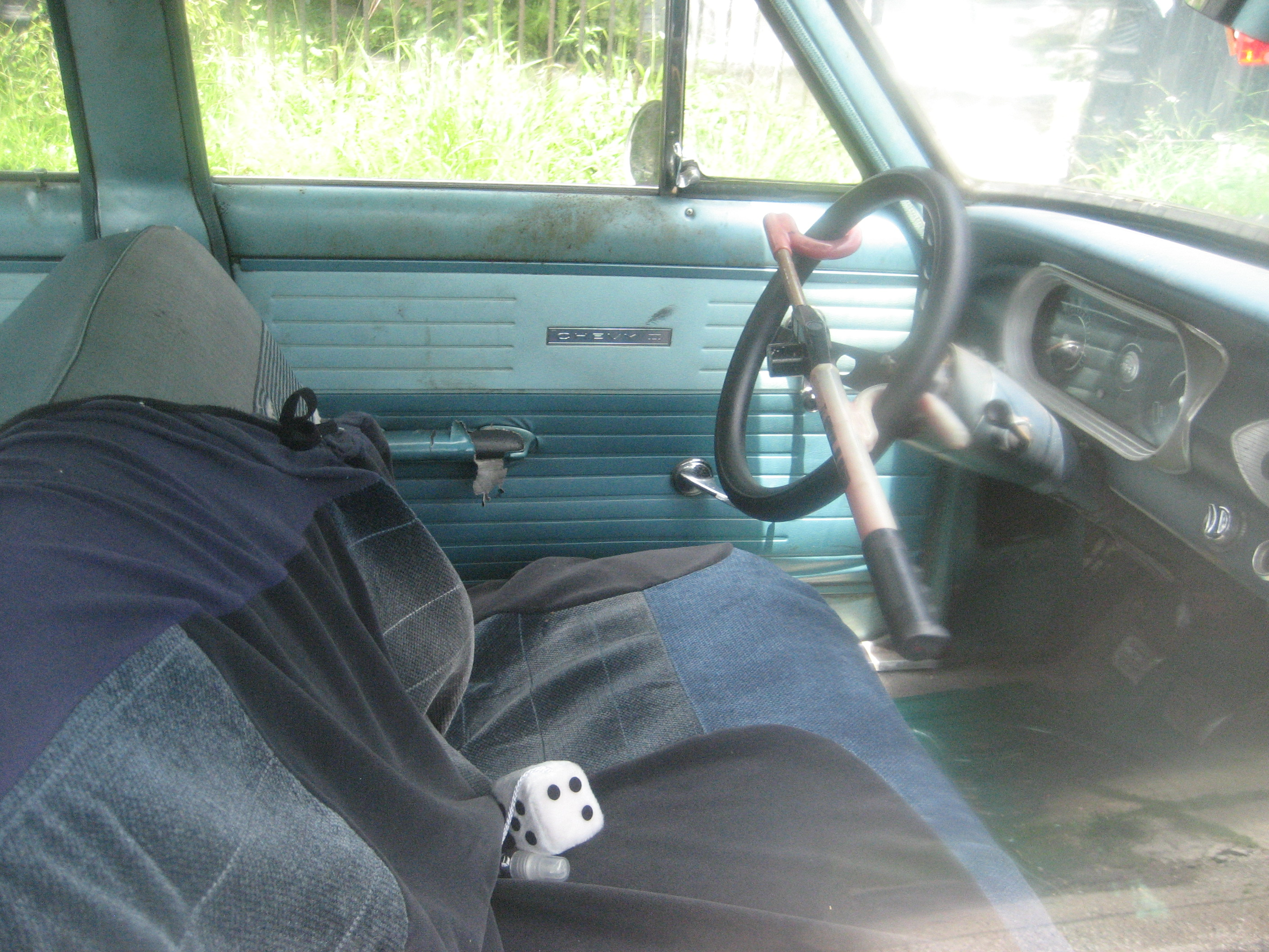 Chevy II 100 seen on street in Bywater section of New Orleans. View inside cab to steering wheel. Valuable car!